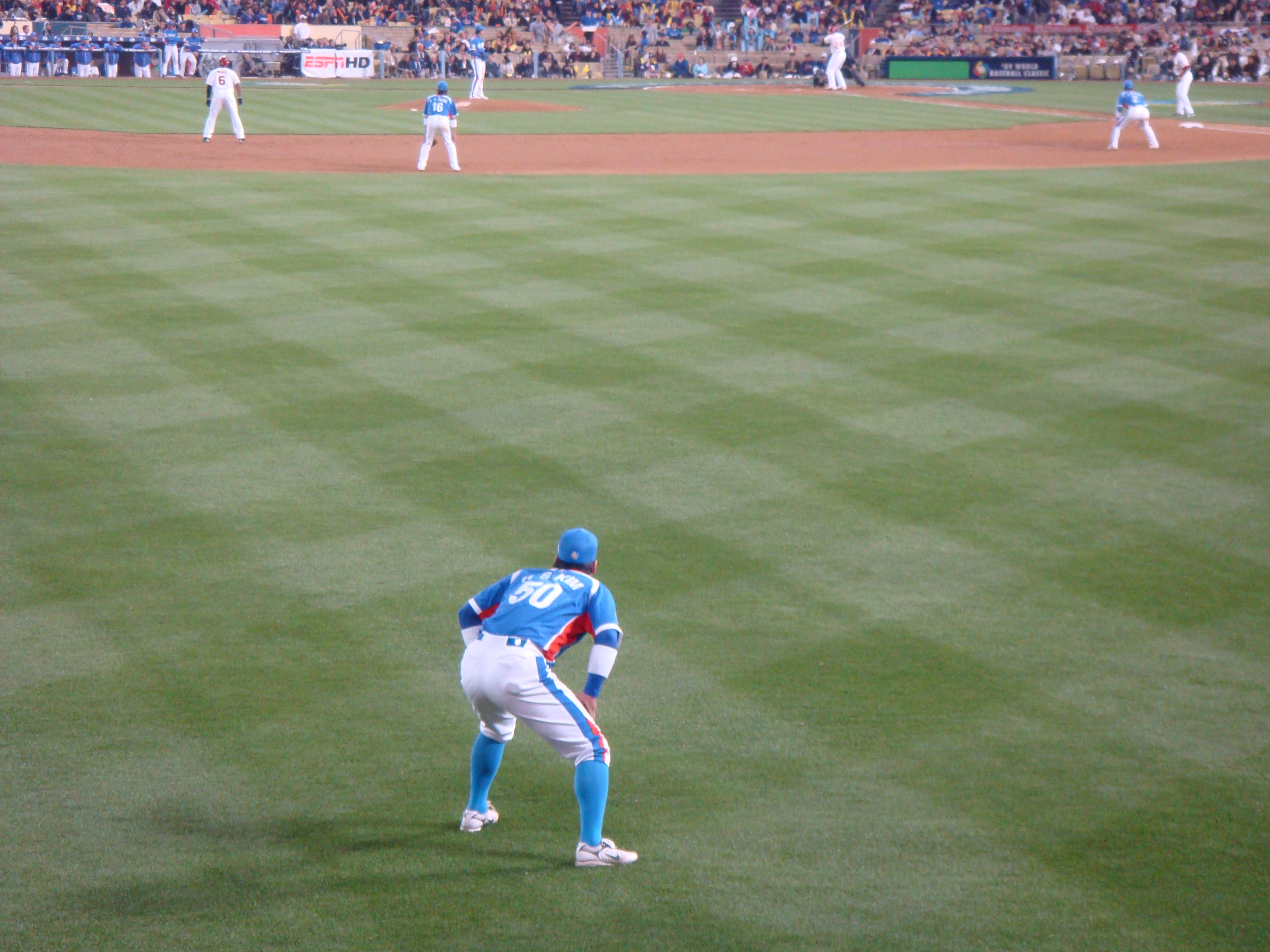 Korean outfielder at the 2009 World Baseball Classic